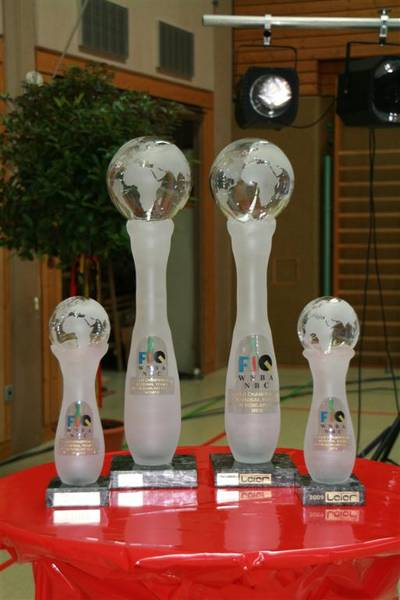 NBC Trophy